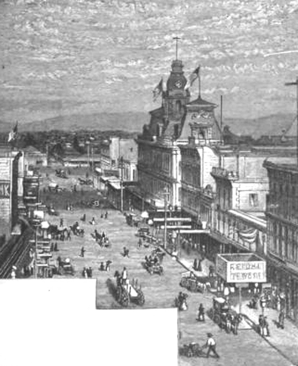 Page from book: Mexico, California and Arizona; being a new and revised edition of Old Mexico and her lost provinces. (1900)